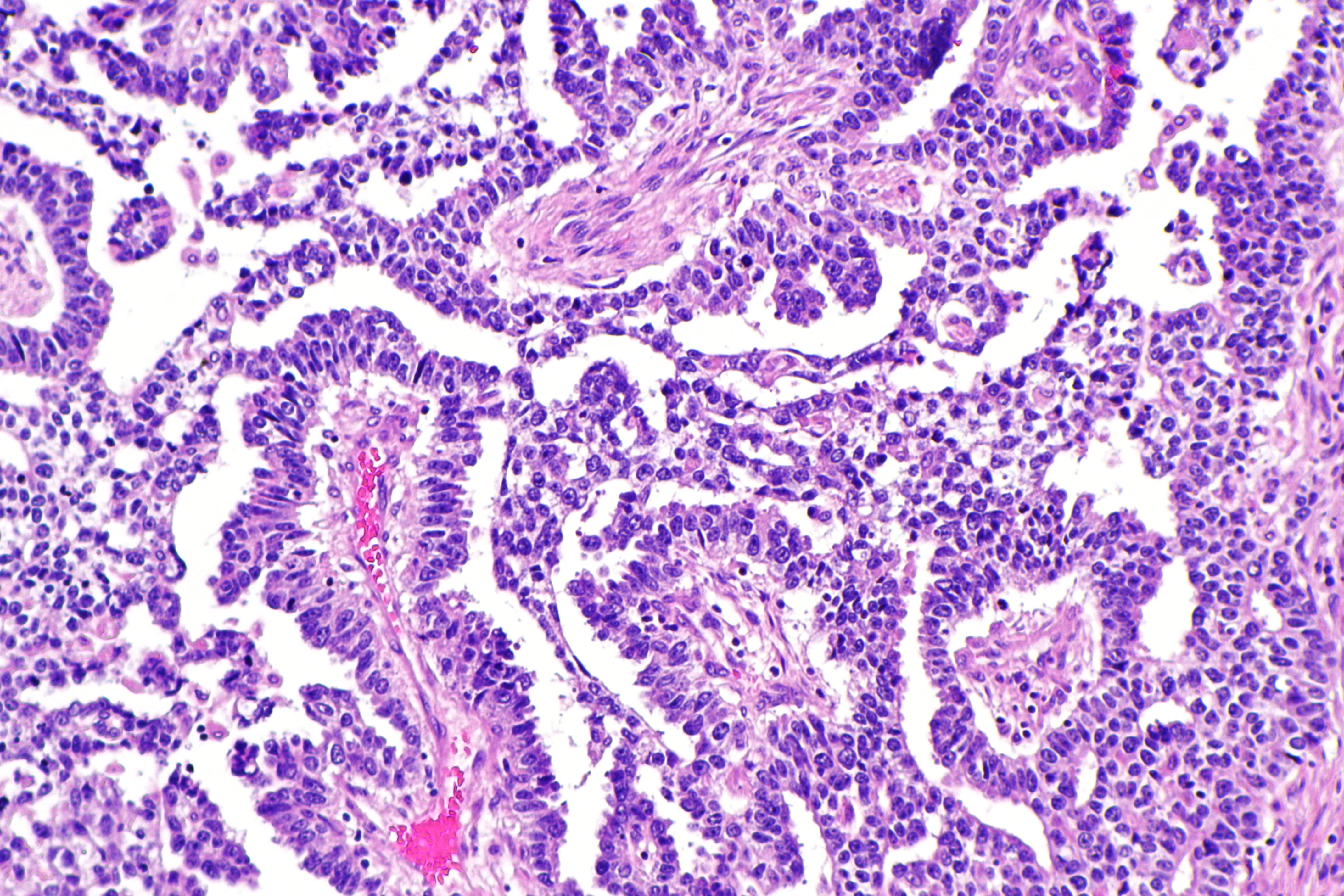 Micrograph showing yolk sac tumour of the testis. H&E stain. Findings were confirmed with immunohistochemistry (glypican-3 positive). Related images YST - low mag. YST - intermed. mag. YST - high mag. YST - very high mag. YST - very high mag.